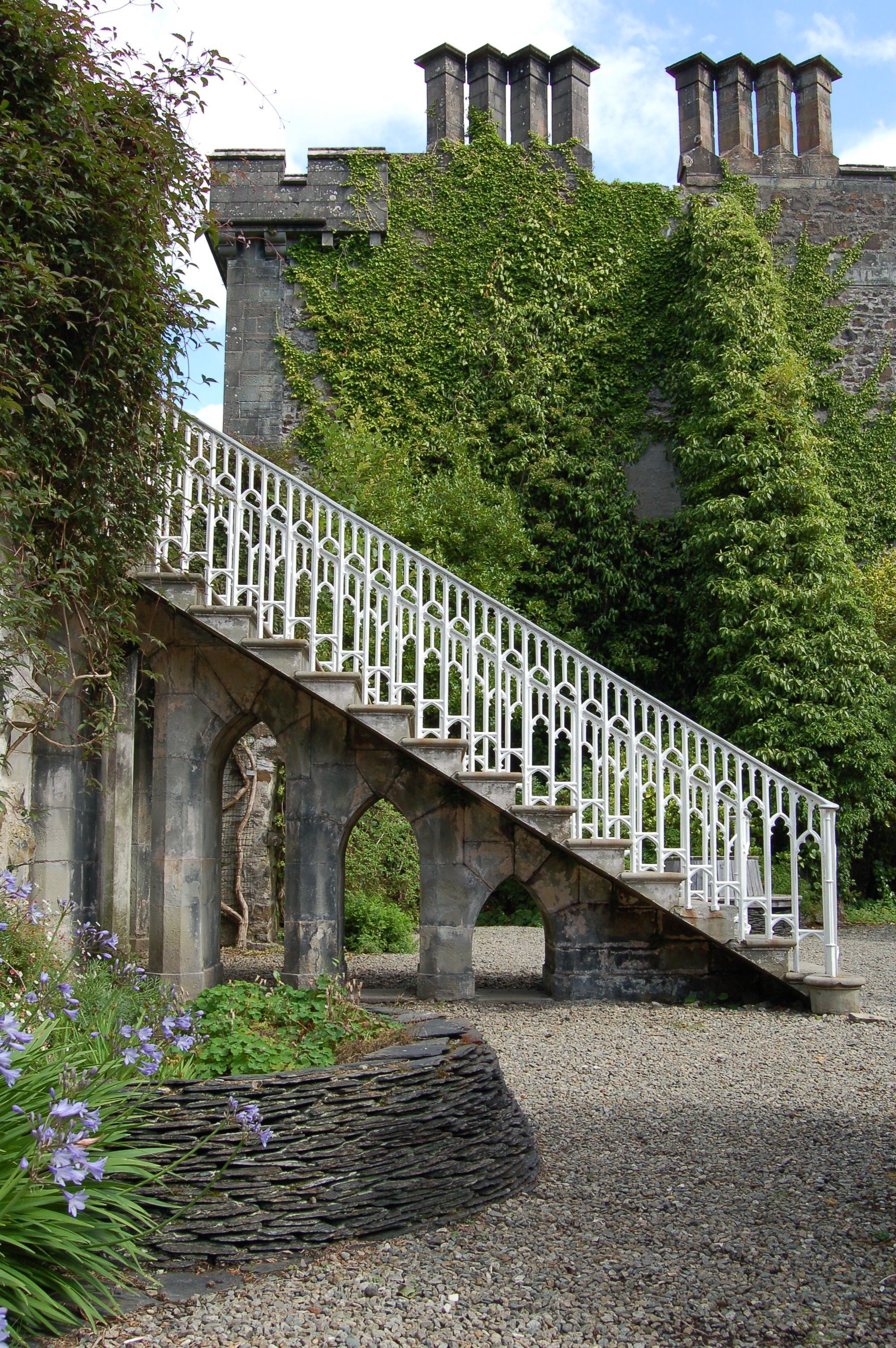 Armadale Castle